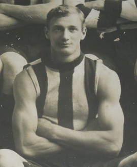 Photograph of Tom Wraith in 1919